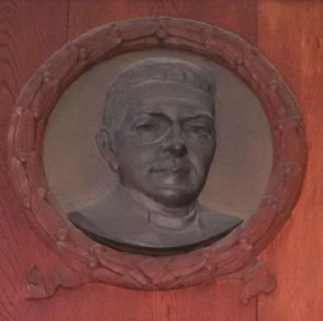 Memorial plaque to the Very Reverend Charles William Gray Taylor, in St Andrew's & St George's West Church, Edinburgh